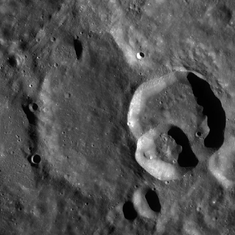 Stetson crater, on the far side of the moon. Mosaic of LRO WAC images. Aspect ratio adjusted from Mercator Projection.